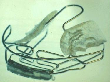 Bimler´s elastic oral adaptor of type A